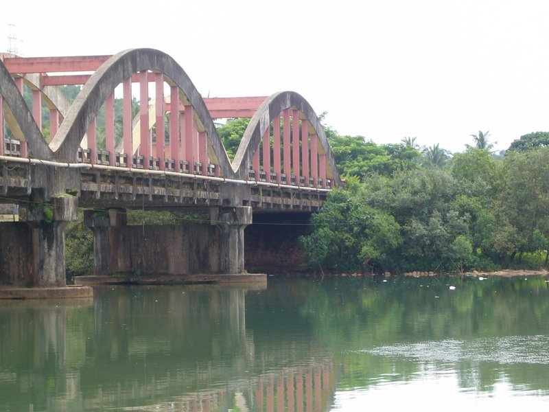 kuppam bridge at padavil